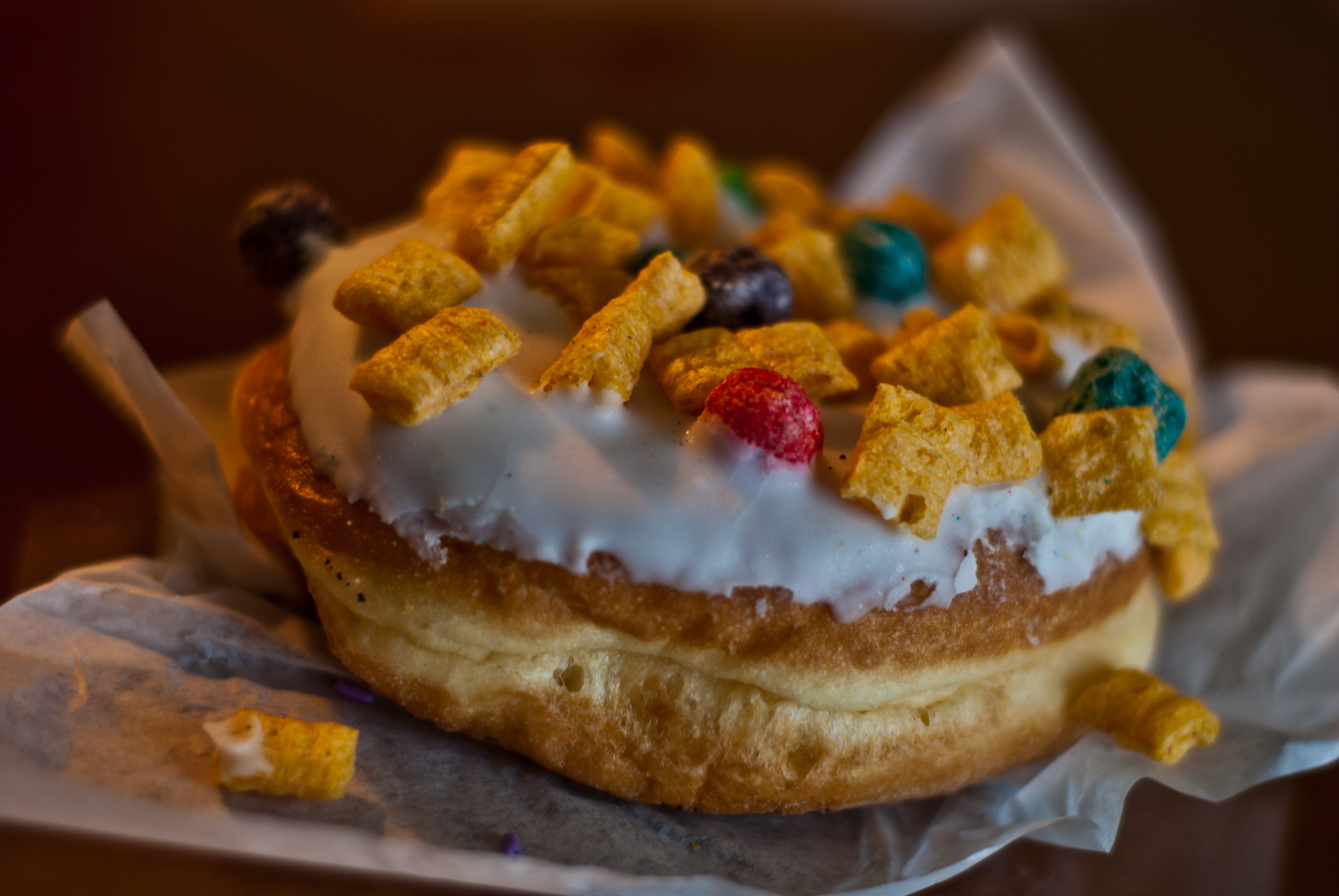 A "Captain my Captain" doughnut from Voodoo Doughtnut in Portland, Oregon, consisting of vanilla frosting and Cap'n Crunch cereal.